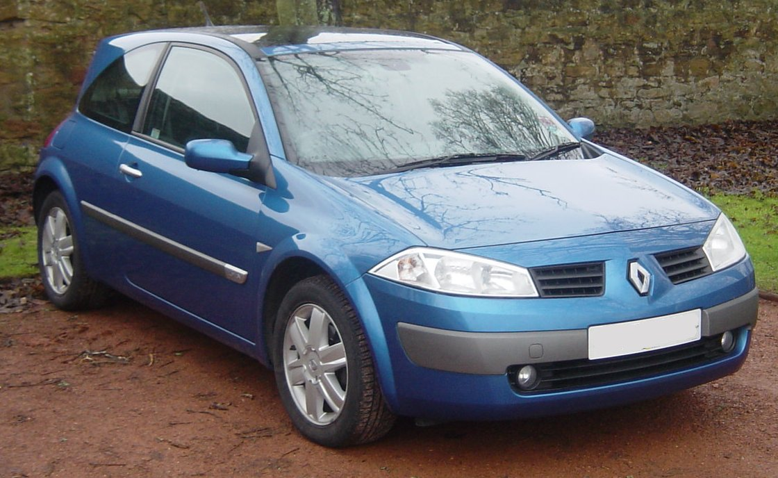 created by Mazurka